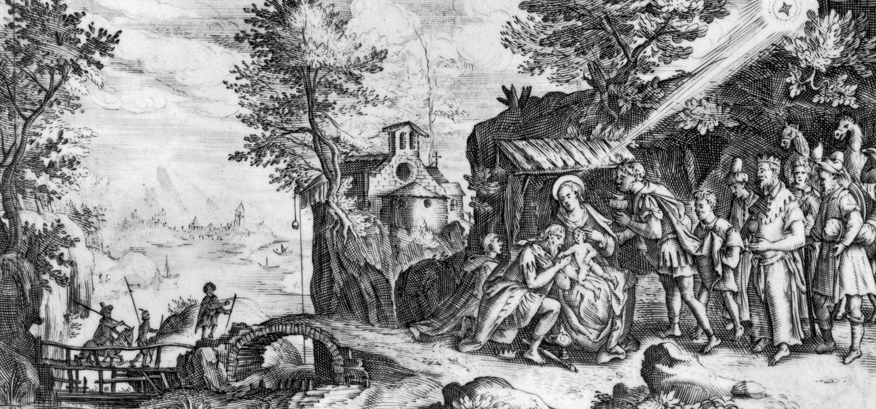 Engraved ivory plaques were incorporated into luxurious small cabinets or chests, but independently conceived plaques set into frames were also valued as self-contained works of art. The style of this minutely detailed scene suggests that of the Flemish engraver and draughtsman Johann Wierix. No engravings on ivory by him are known, but, in addition to prints on paper, he made delicate engravings on silver. During the 1590s, Wierix worked for the Habsburg court in Brussels and subsequently for the Jesuits in Antwerp.